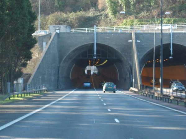 Brynglas Tunnels M4 (Eastern Portal) near to Crindau, Newport – When originally built, a railway track ran across the top of this end of the tunnels – this has been converted into a road